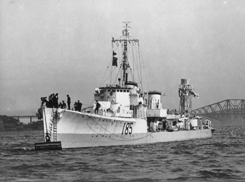 HMS Shikari At a buoy in the Firth of Forth.